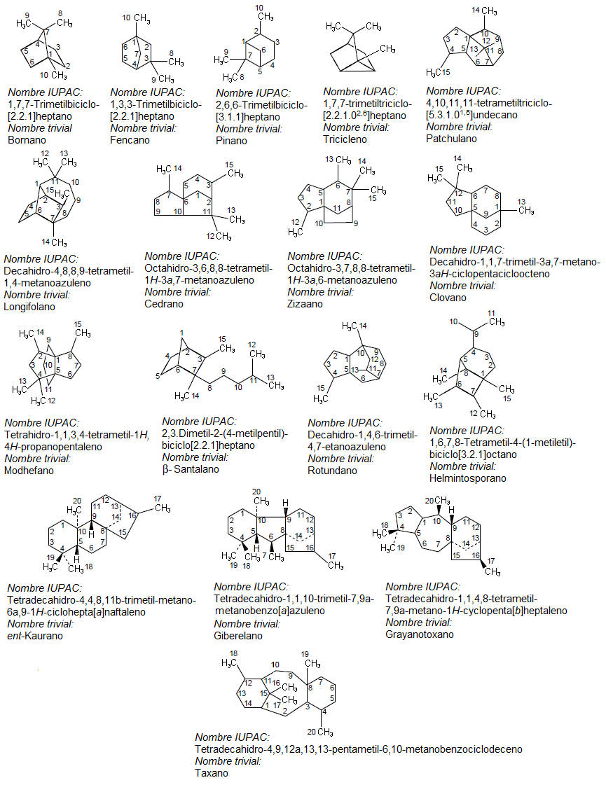 Bridged terpenes